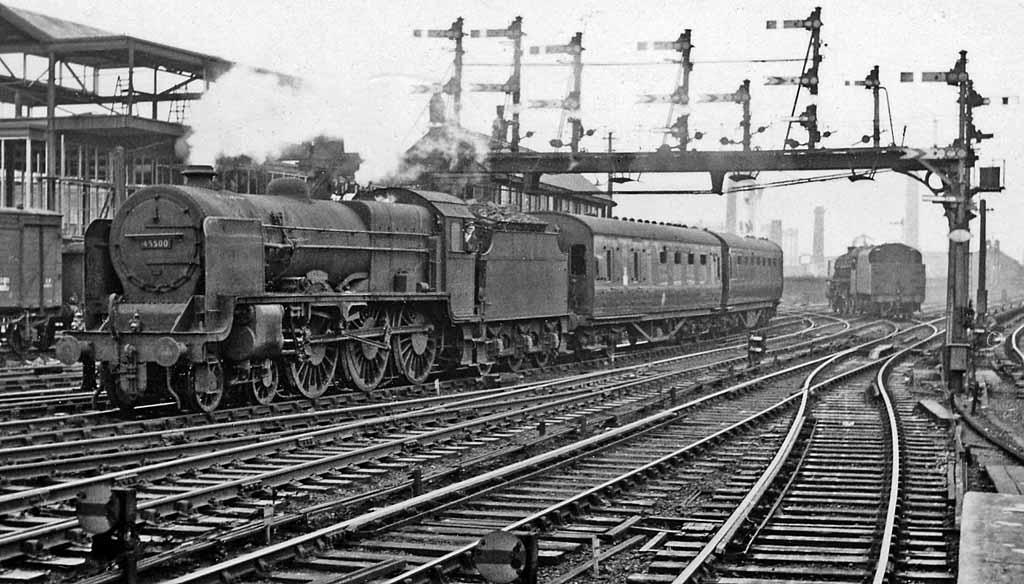 The first LMS 'Patriot' 4-6-0 entering Manchester Victoria. LMS Fowler Class 6P 4-6-0 No. 45500 'Patriot' westbound entering Manchester Victoria with empty stock. The train is passing Victoria East Box, coming round the Cheetham Hill curve probably from Red Bank Carriage Sidings, while a light engine (Class 5 No. 45056) also approaches in parallel. On the right the main lines eastwards begin the steep climb up to Miles Platting. It was an extremely busy Summer Saturday and the signalmen had to allow trains to approach alternately: note all the signals for the eastbound direction are at Danger.